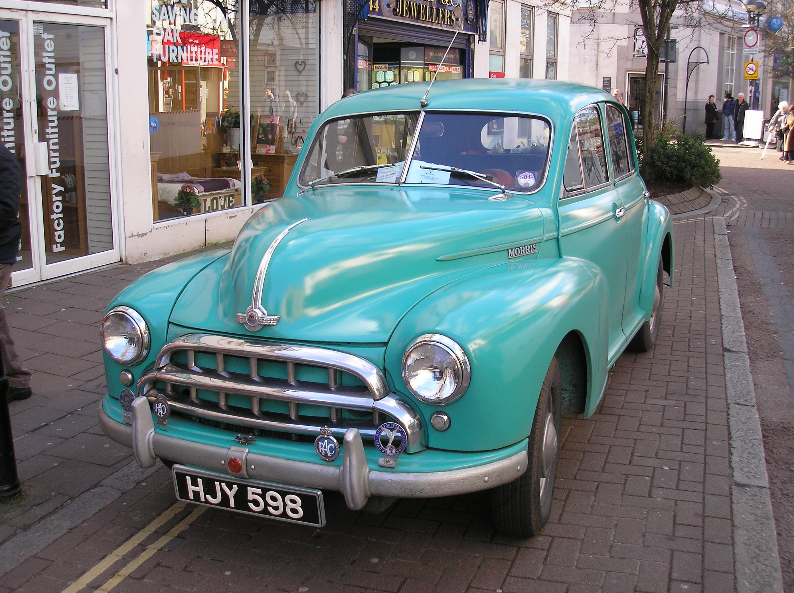 A classic 1950s Morris Oxford spotted in Newton Abbot on 18 February 2013.(DVLA) manufactured 1953, 1476cc